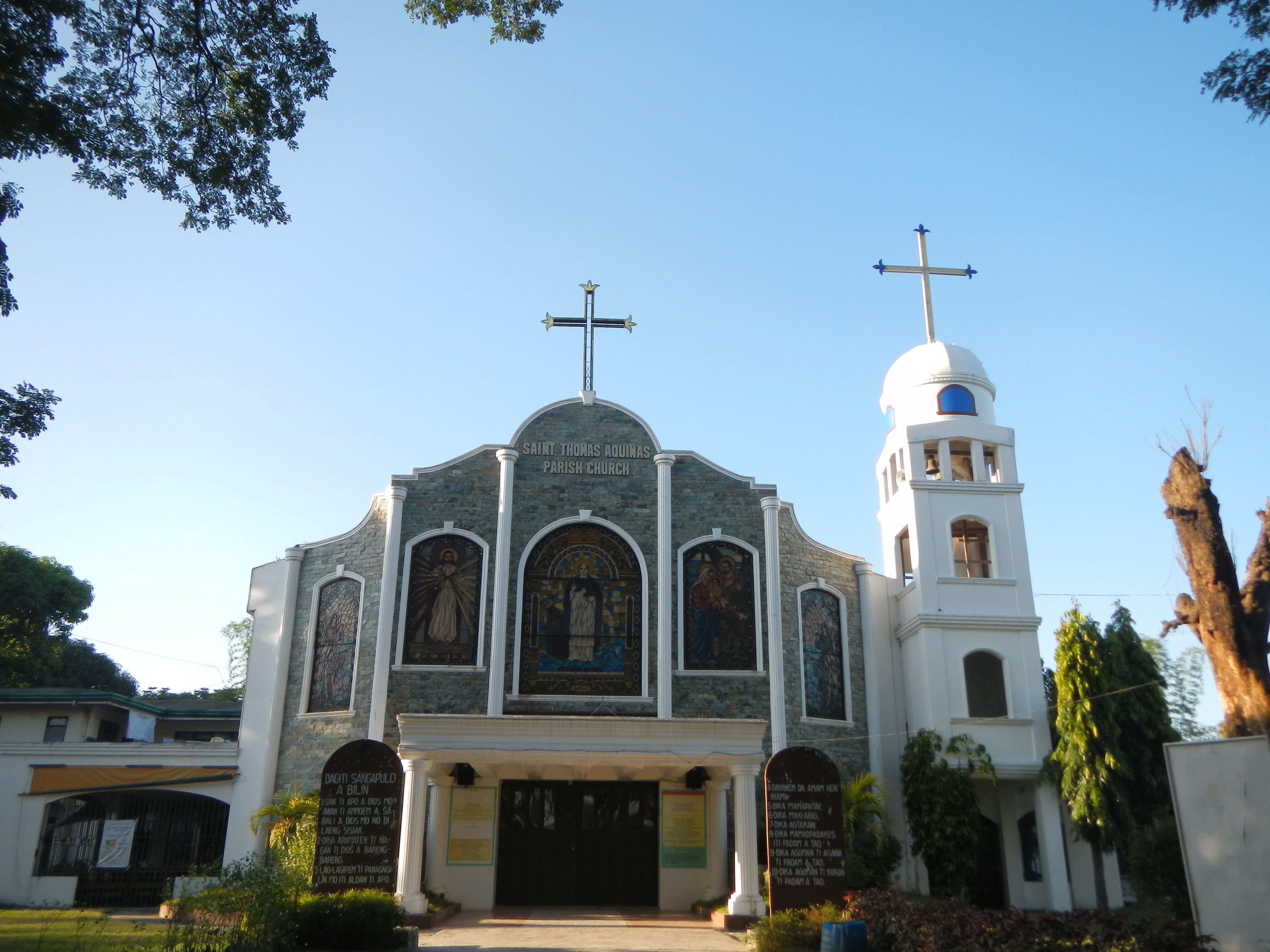 St. Thomas Aquinas Parish (F-1973) Vicariate of Sacred Heart Vicar Forane: Father Hurley John S. Solfelix, 2426 Pangasinan, Philippines Phone: +63 75 578-5377 Feast Day: January 28 Parish Priest: Father Alejandro T. De Guzman Vicariate of Sto. Tomas de Aquino[1]Roman Catholic Archdiocese of Lingayen-Dagupan Santo Tomas, Pangasinan[2]